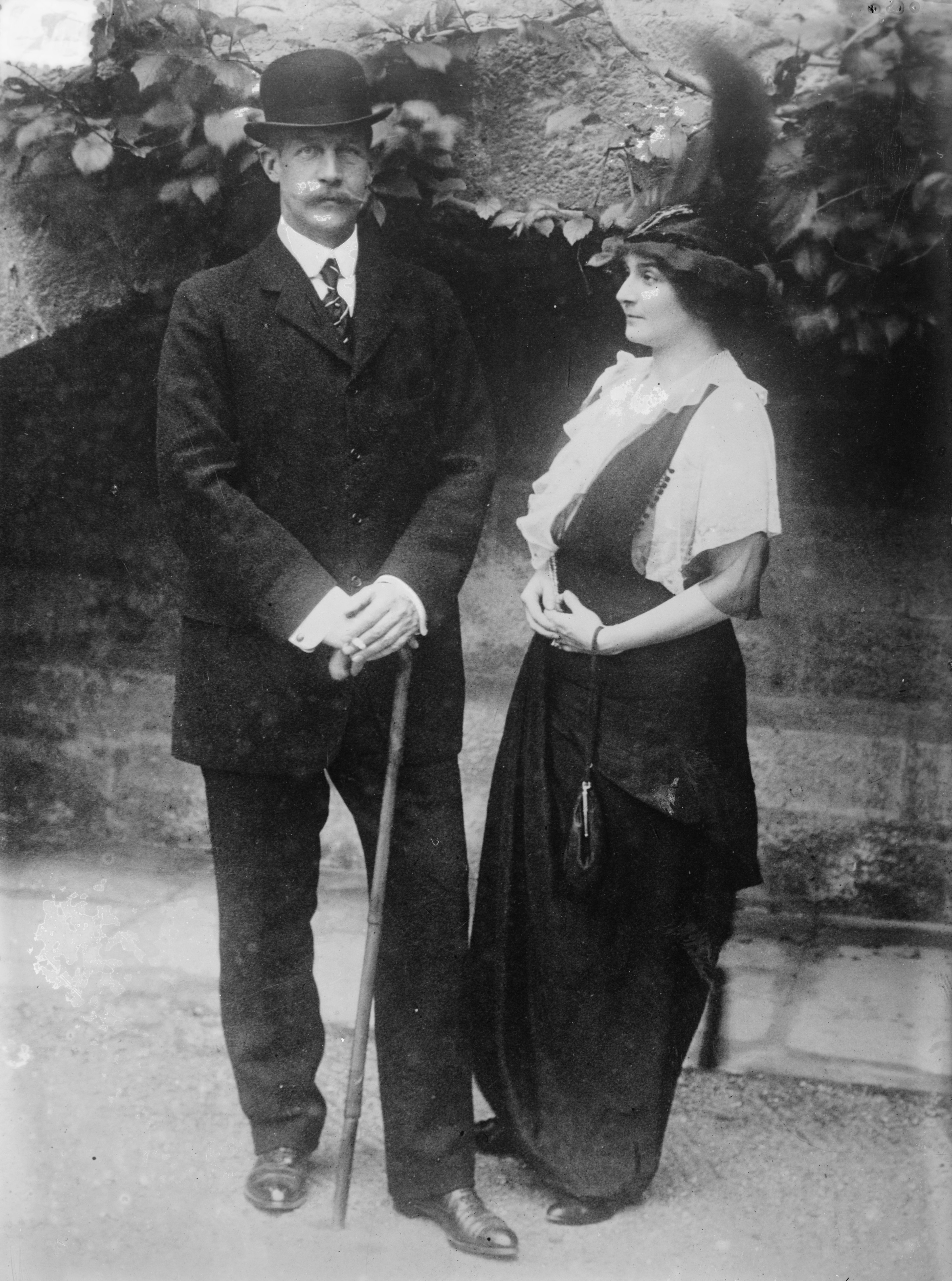 Title: Prince Geo. of Greece and wife Abstract/medium: 1 negative : glass ; 5 x 7 in. or smaller. Description: Photograph shows Prince George of Greece and Denmark (1869-1957) and his wife author and psychoanalyst Princess Marie Bonaparte (1882- 1962).